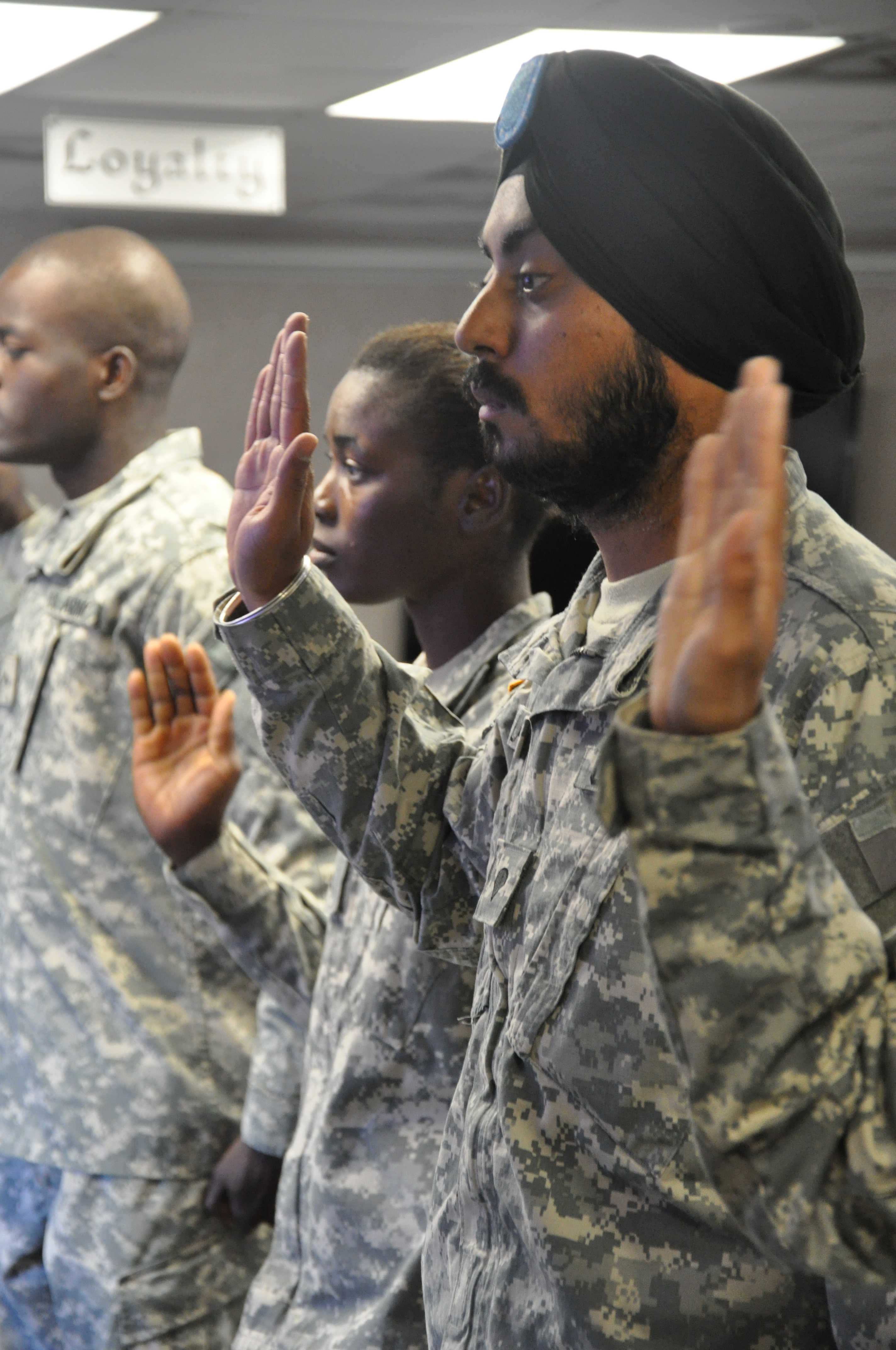 Spc. Simranpreet Lamba joins 12 other Soldiers in a naturalization ceremony Wednesday morning at Fort Jackson. Lamba, a Sikh whose articles of faith include having unshorn hair covered by a turban and keeping a beard, is the first enlisted Sikh Soldier in at least 26 years who has been granted religious acco Photo Credit: Susanne Kappler